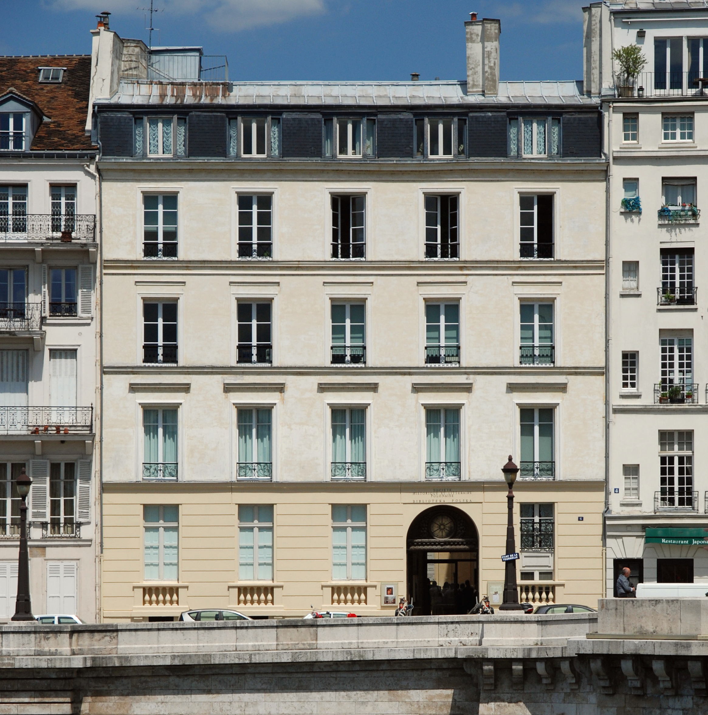 Bibliothèque Polonaise de Paris, France.